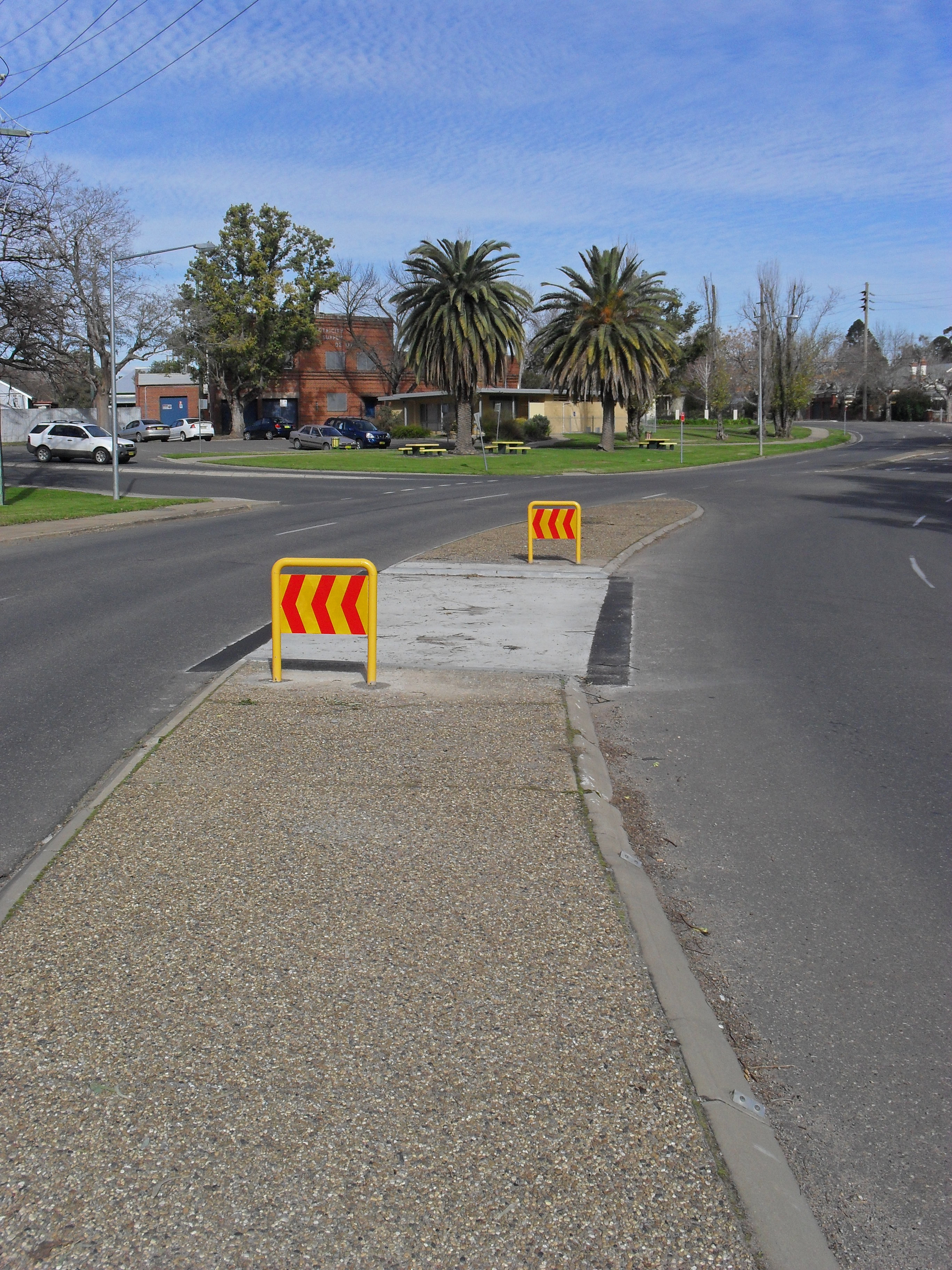 Ivan Jack Drive traffic island with a pedestrian refuge recently added.